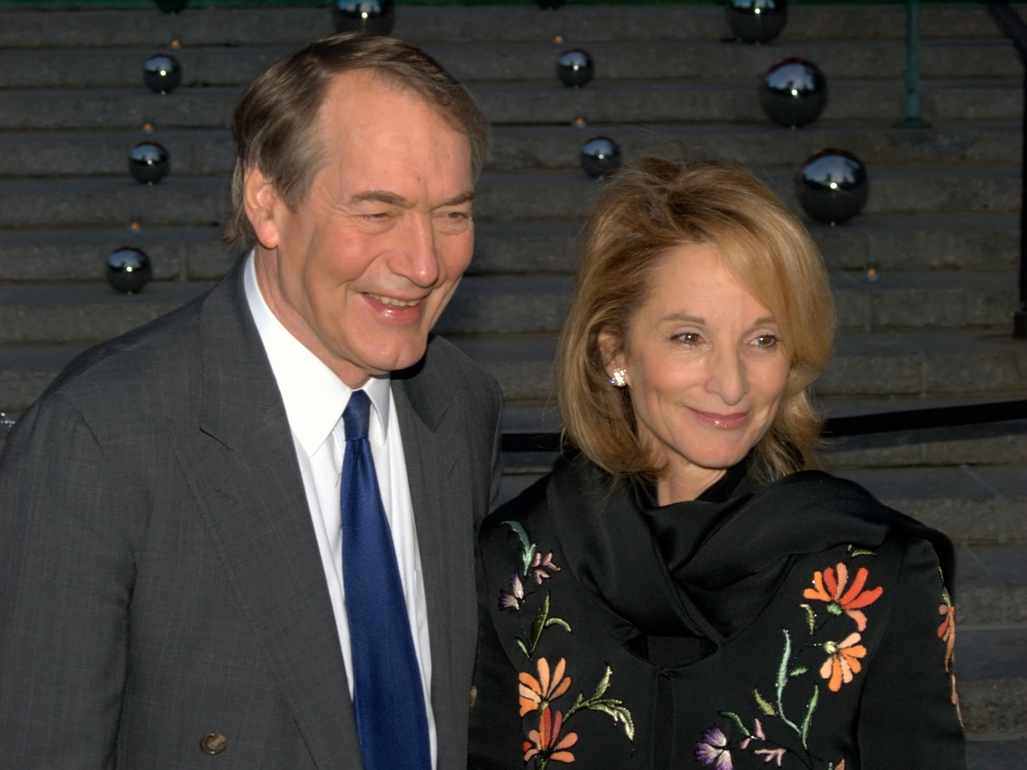 Charlie Rose and Amanda Burden at the 2010 Tribeca Film Festival.